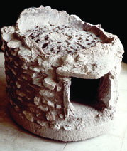 Eretria stove, Ancient Helladic.